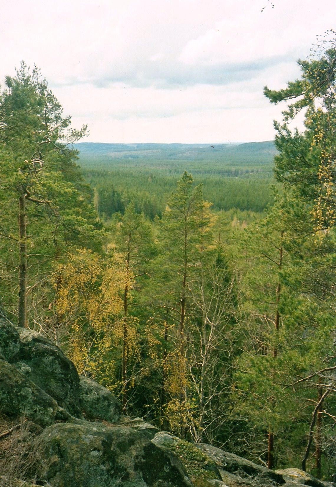 Nature in Sweden Norra kvill Nationalpark